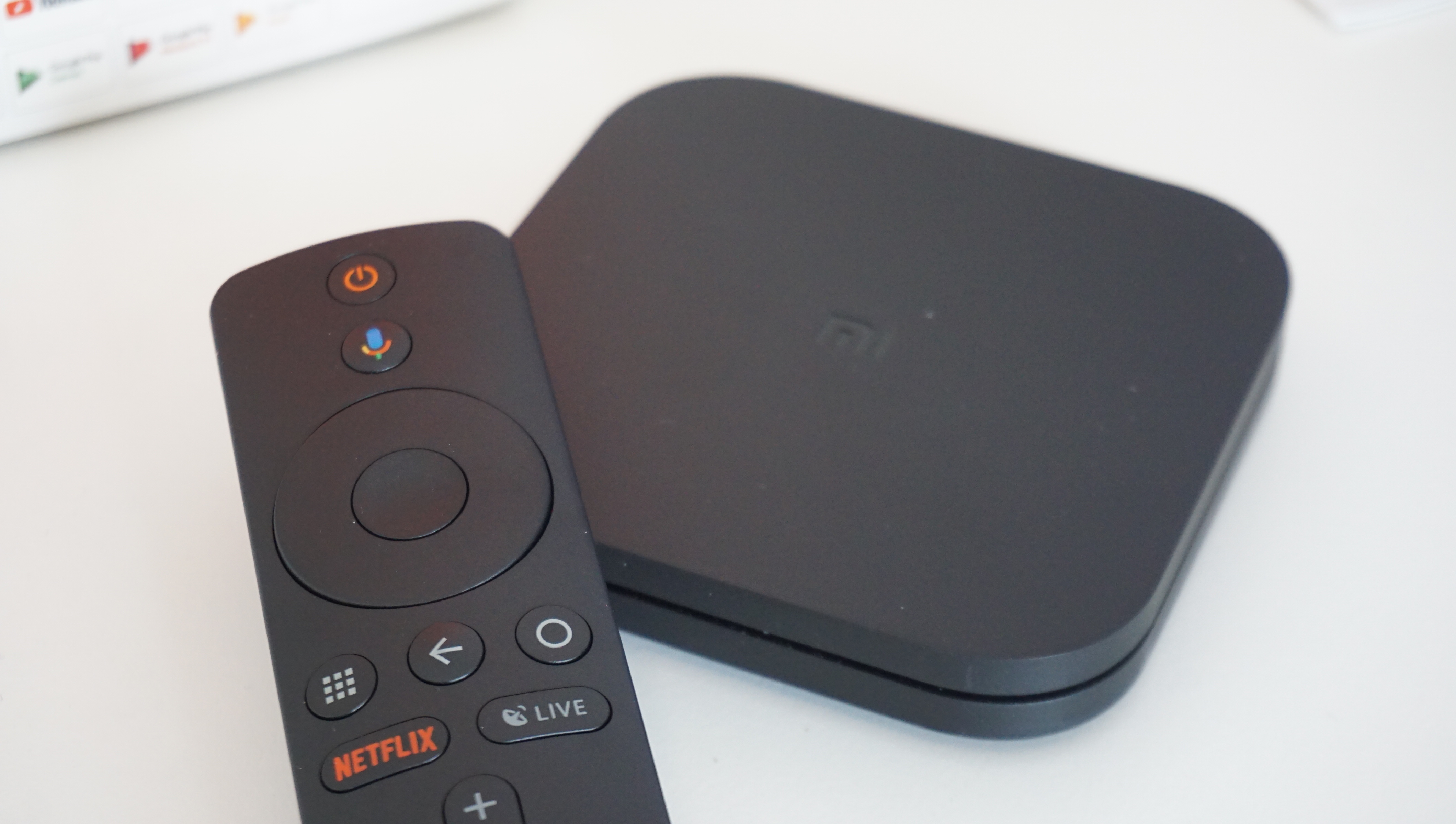 Xiaomi Mi Box S streamer with a remote and netflix button